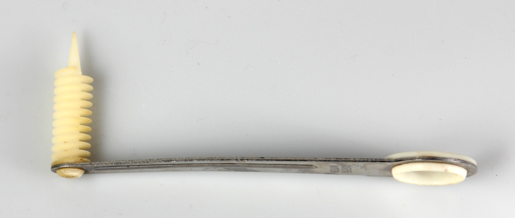 Radish slicer